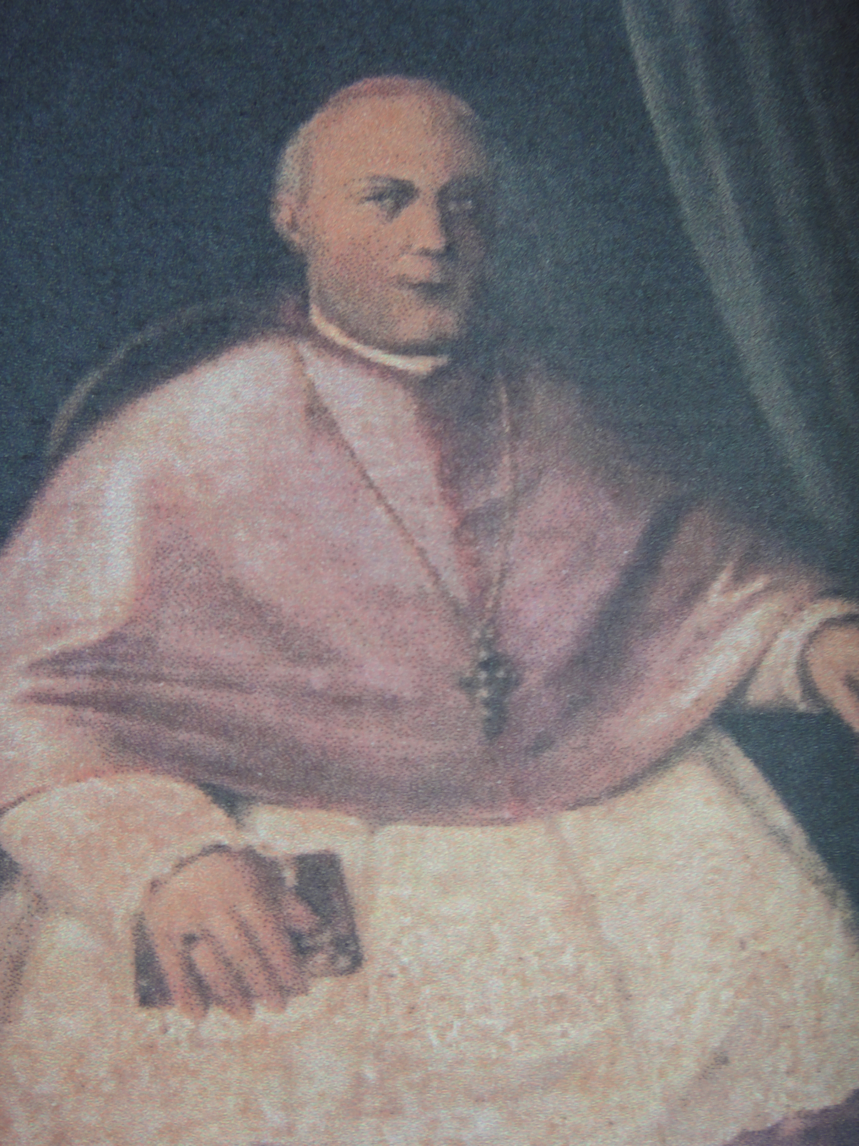 Archbishop Mauro Caruana of Malta.